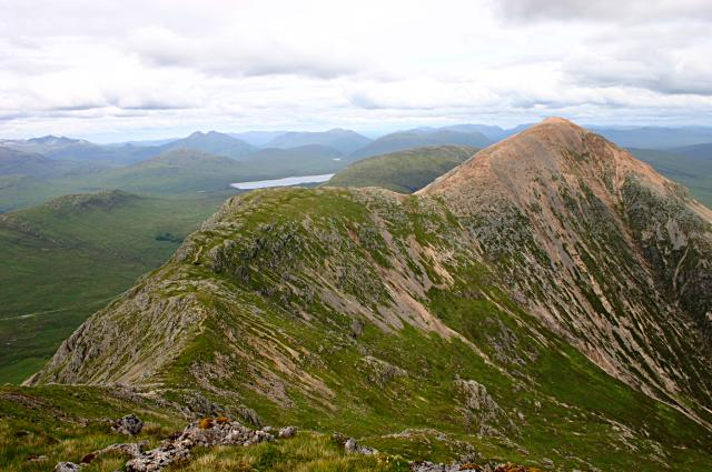 Buachaille Etive Mor. Looking north along the ridge to Stob Dearg; Blackwater Reservoir in the distance.